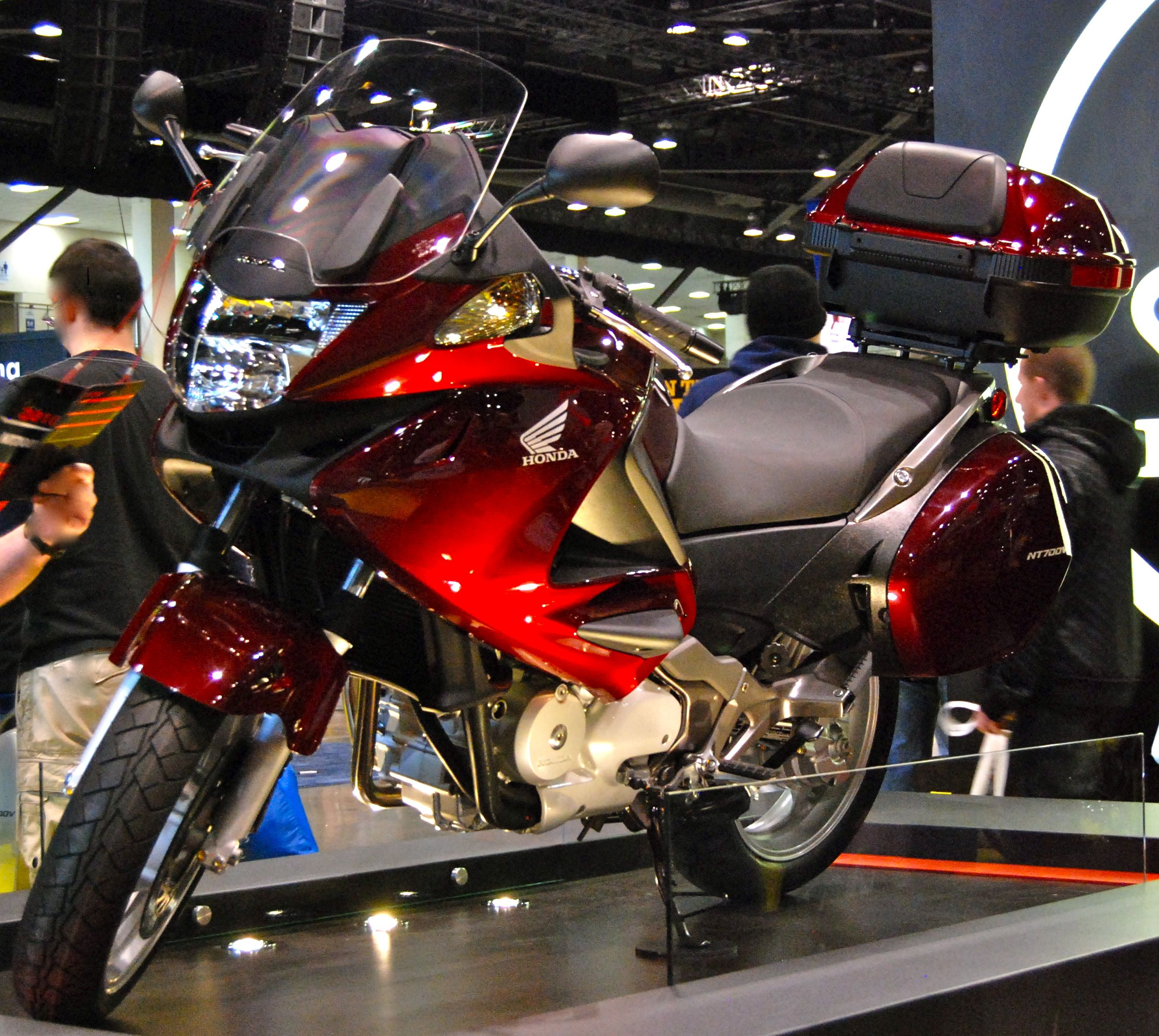 2010 Honda NT700V at the 2009 Seattle International Motorcycle Show